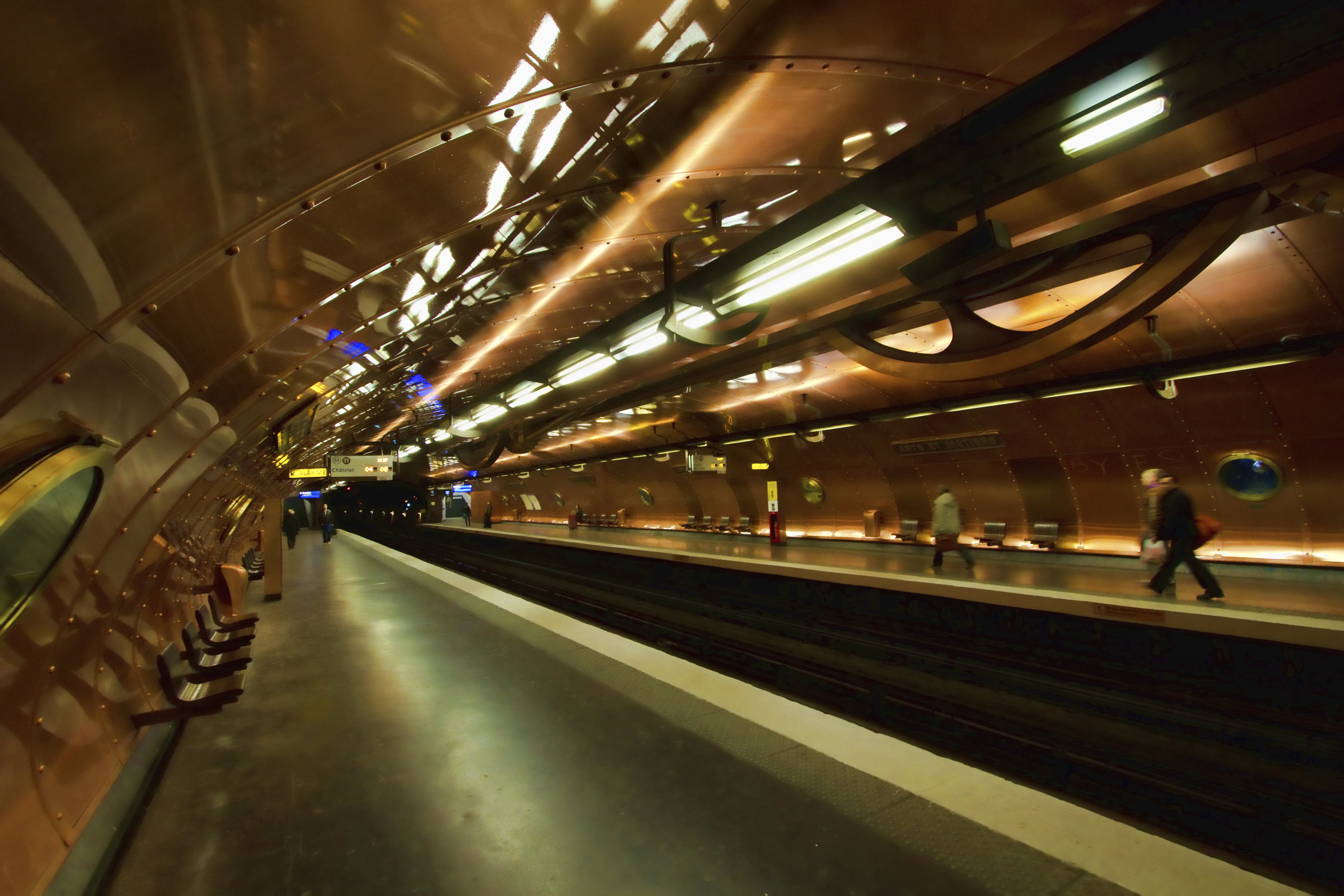 Arts et Metiers metro station in Paris - go down to one of the lower lines and you'll find this marvellous platform.